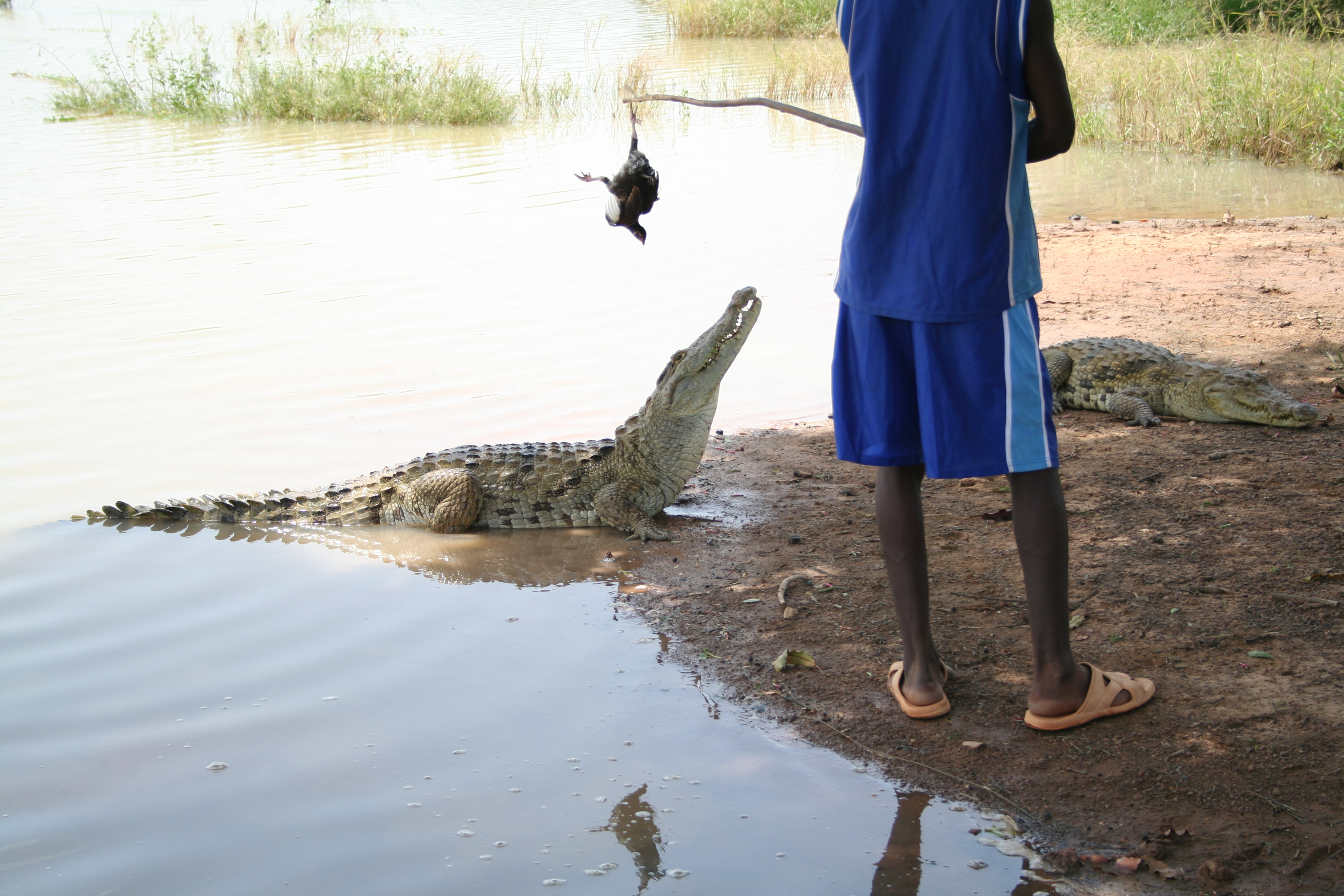 Sacred crocodiles of Bazoulé, Burkina Faso.